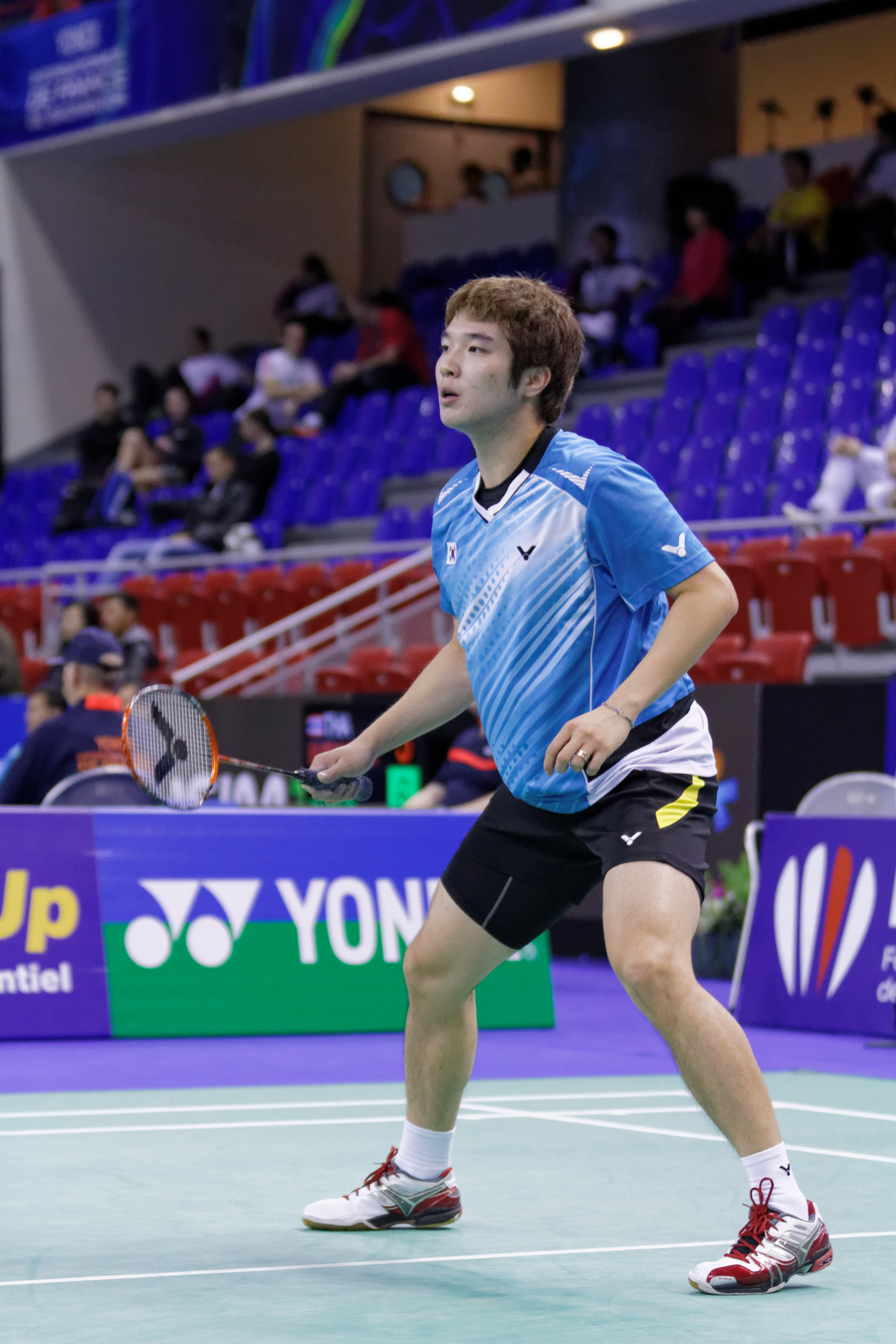 2013 French open. Men's doubles eightfinal. Kim Ki-jung and Kim Sa-rang vs Chris Adcock and Andrew Ellis.